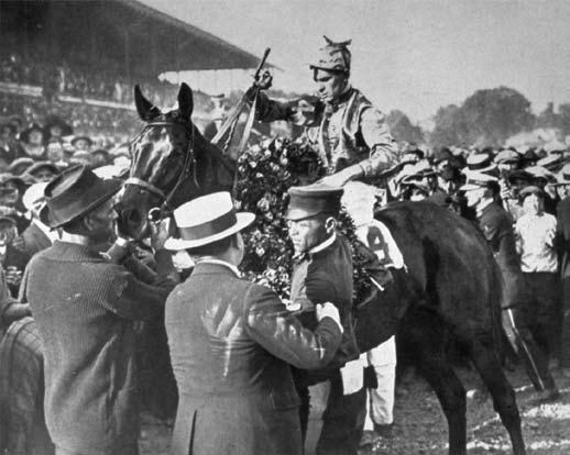 1922 Kentucky Derby winner Morvich